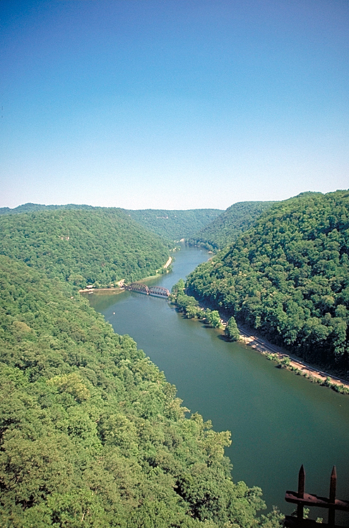 A scenic view from Hawk's Nest State Park of the New River (West Virginia) near Ansted, West Virginia.